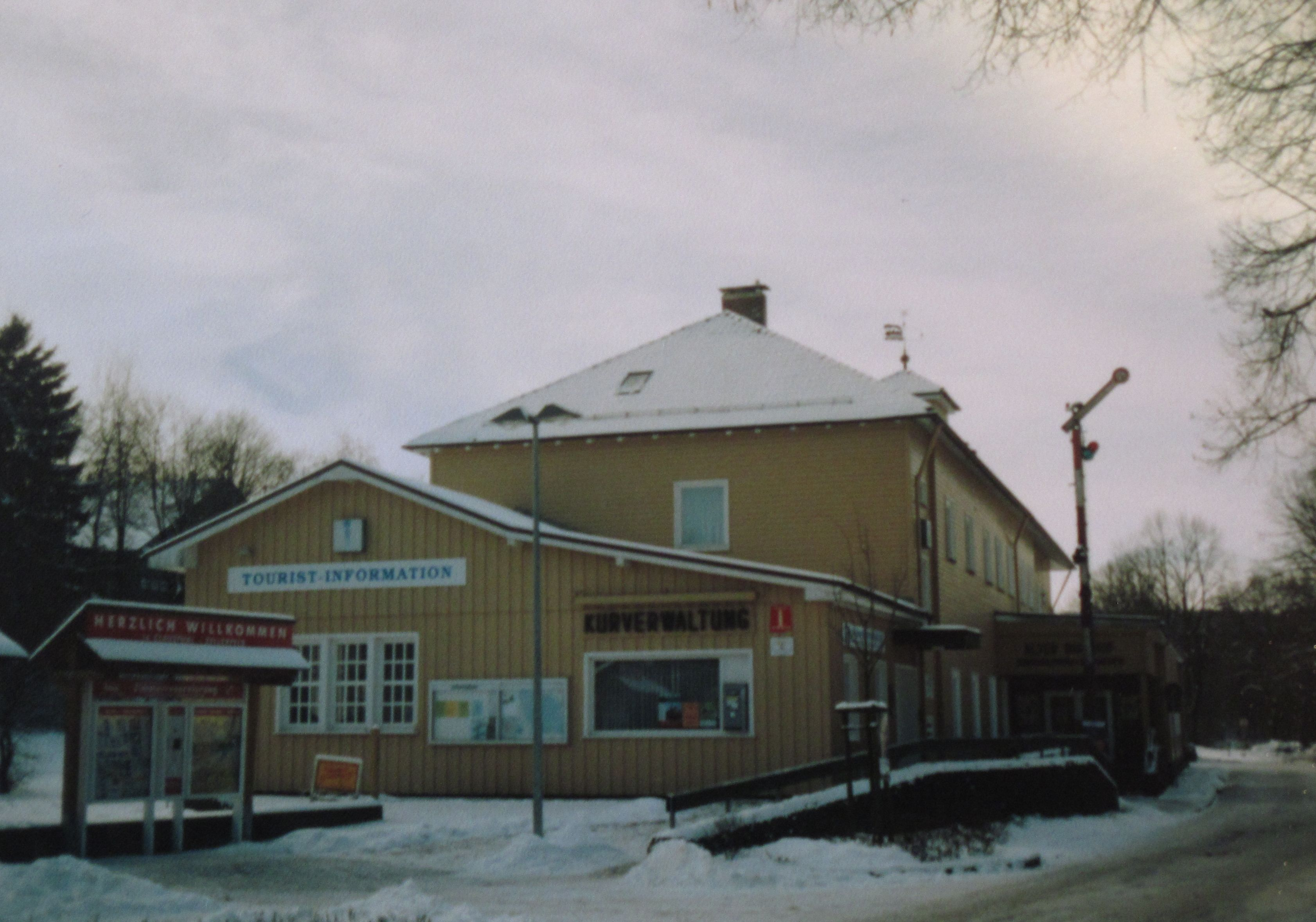 Former railway station (built in 1877), Clausthal-Zellerfeld , Harz Mountains, Lower Saxony, Germany